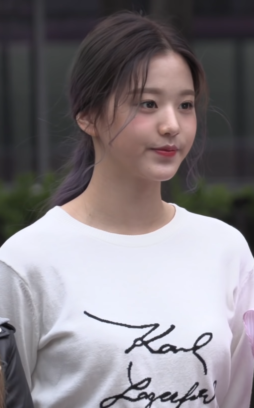 Jang Won-young at Music Bank on April 19, 2019